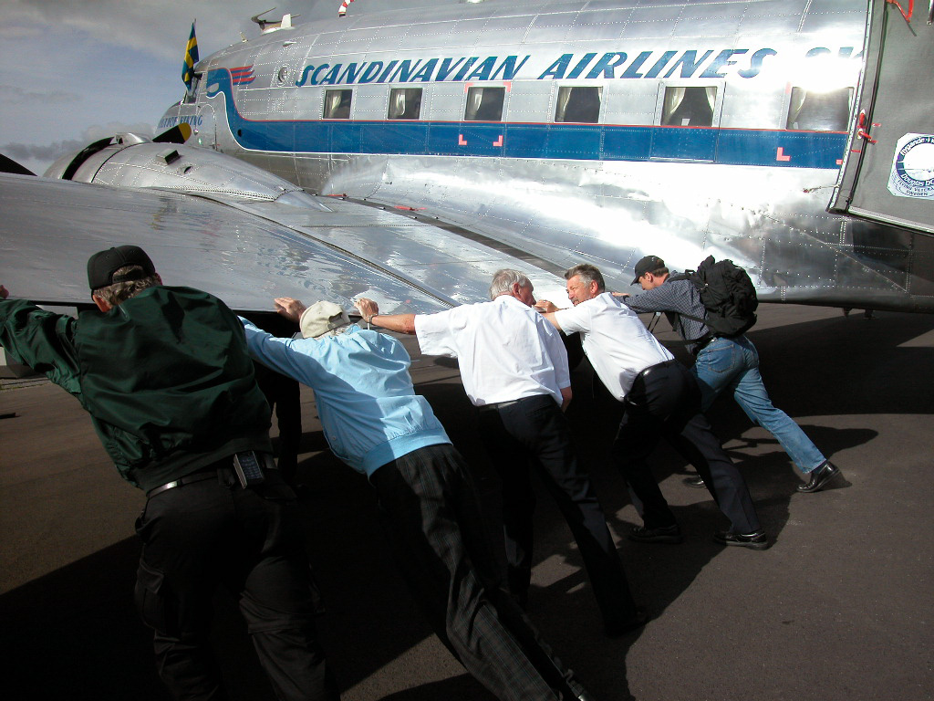 Veteran DC-3 Daisy is pushed from the parking lot to the fuel station during a Fly-in at Kjeller Airport, outside Oslo, Norway. Photo by me, Kapten Kaos, june 2003. I hereby release this image into the Public Domain. Enjoy!